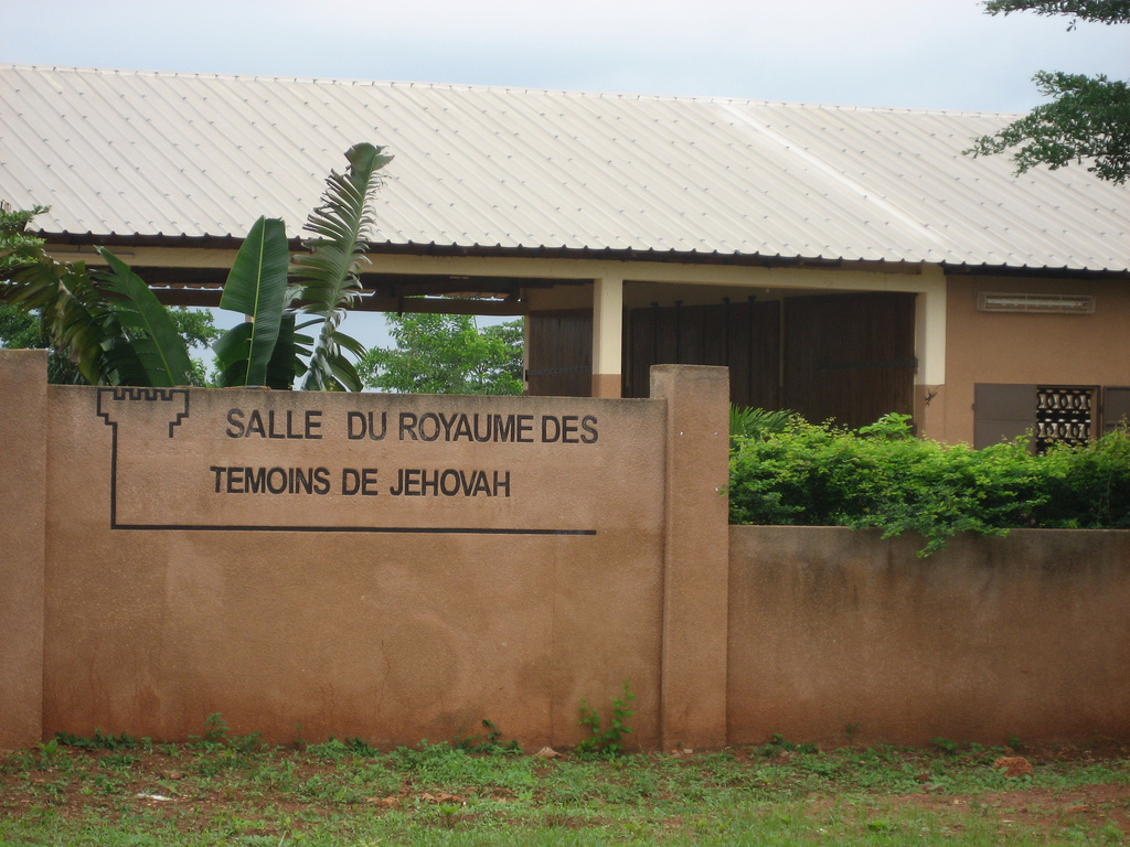 Bohicon, Benin